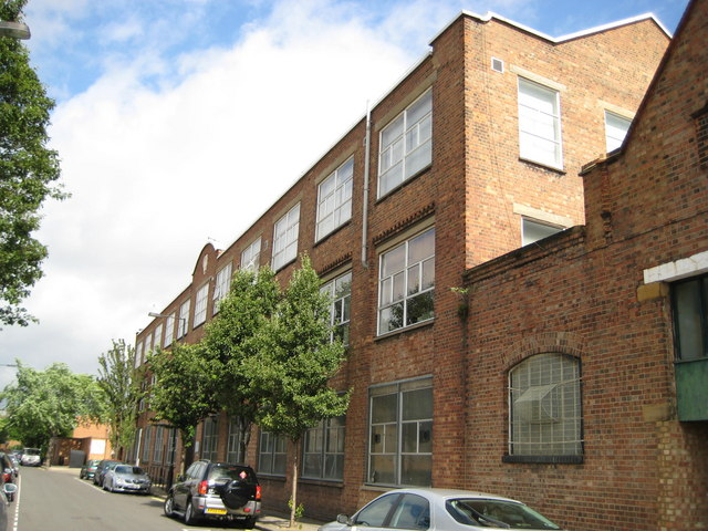 Fulham: West London Coroner's Court This functional building in Bagley's Lane, SW6, is the West London Coroner's Court. As well as dealing with mortalities in West London, inquests into the deaths of UK citizens overseas are held here, for example those that occurred during the Asian Tsunami of 26 December 2004. The 1920 and 1938 Ordnance Survey 1:10,560 scale maps both show this road as Brill Street, with Bagley's Lane only commencing further to the north-west.